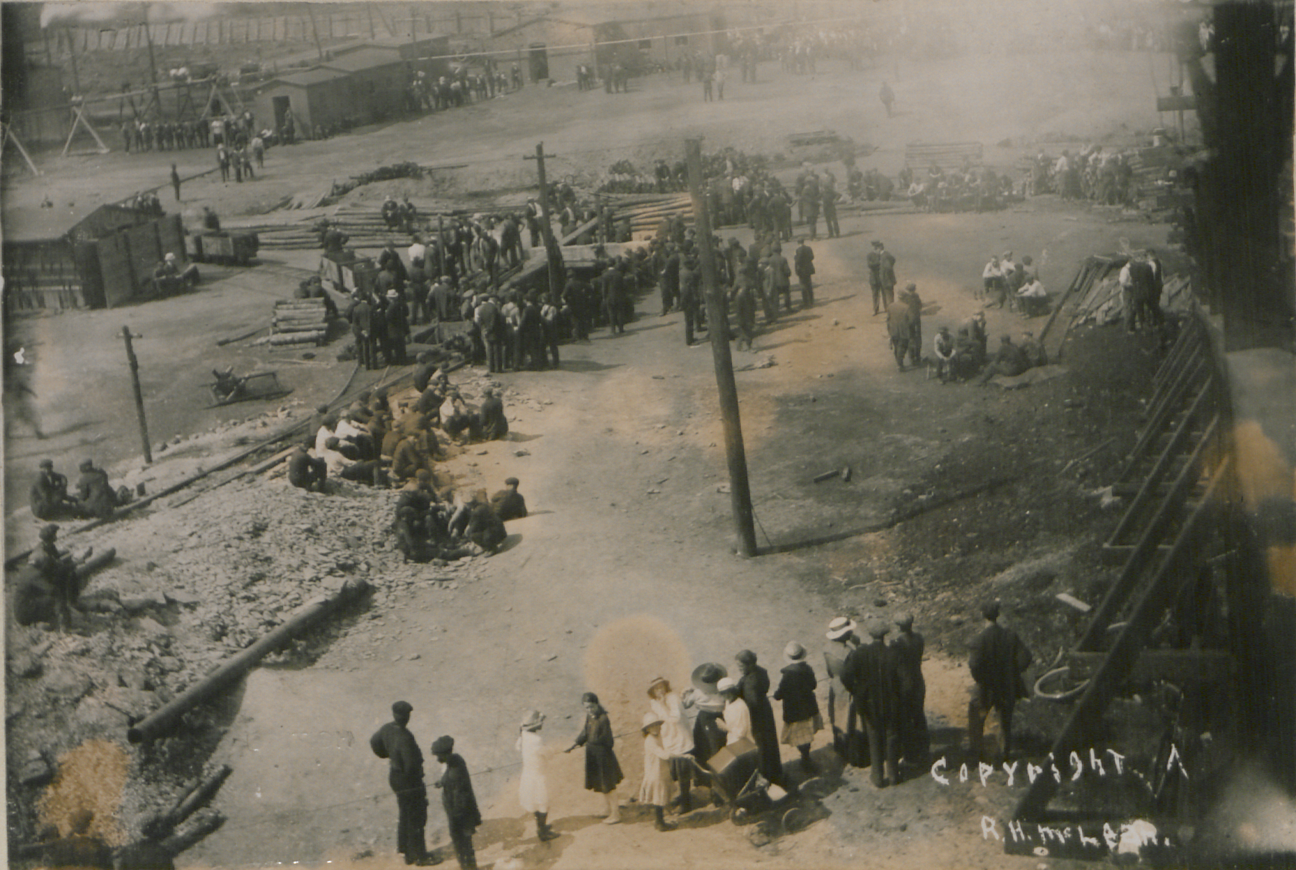 Original caption: “Mining disaster at New Waterford, Nova Scotia, July 25, 1917.”